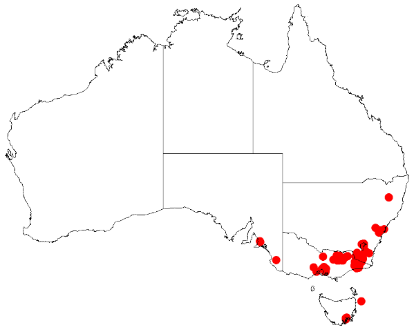 Acacia boormanii Occurrence data from Australasian Virtual Herbarium downloaded from on 8 December 2018